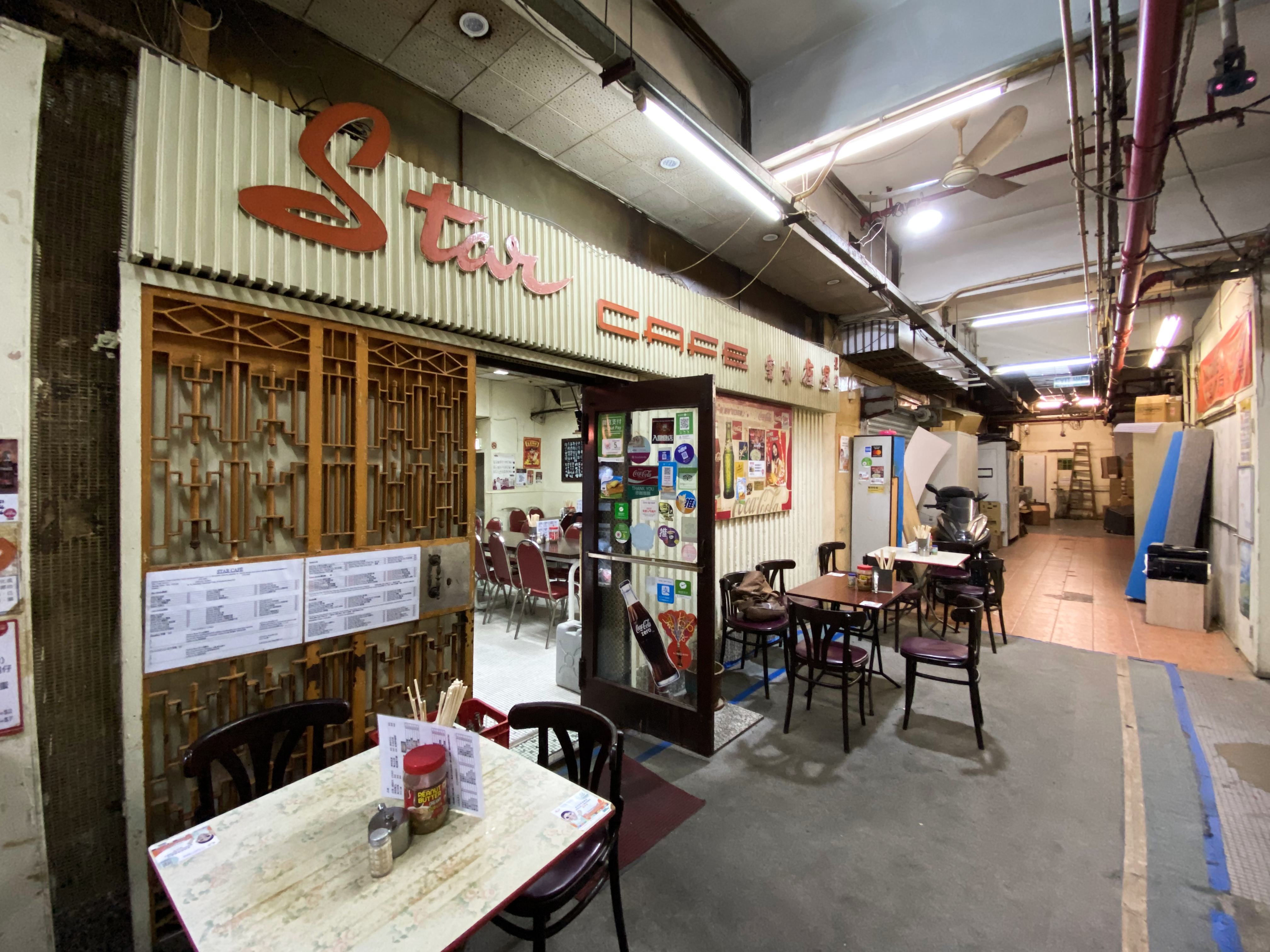 Champagne Court Star Cafe